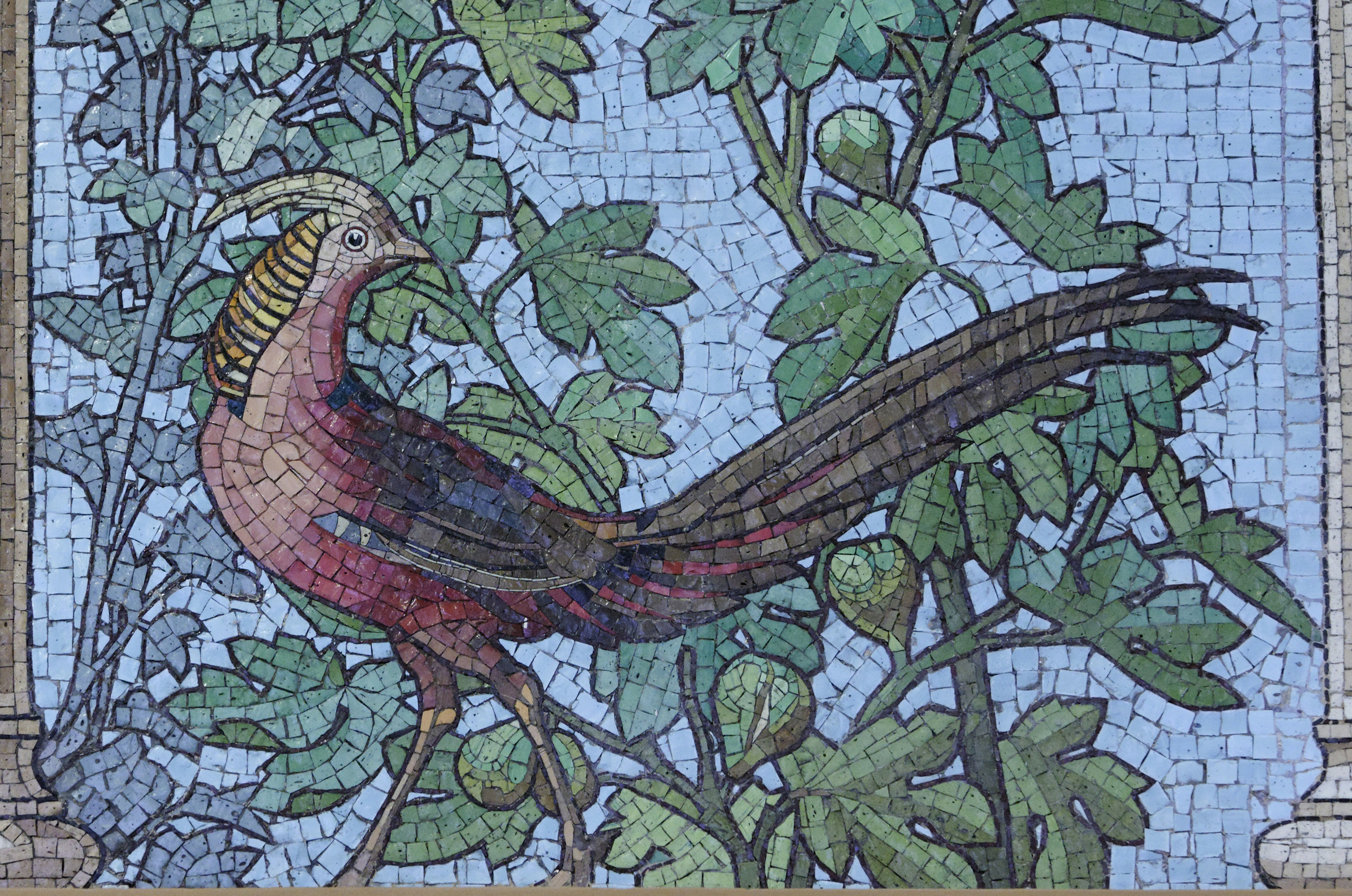 Mosaic by Giandomenico Facchina (1826-1904). Dining hall room of the Collège Sainte-Barbe, Paris.